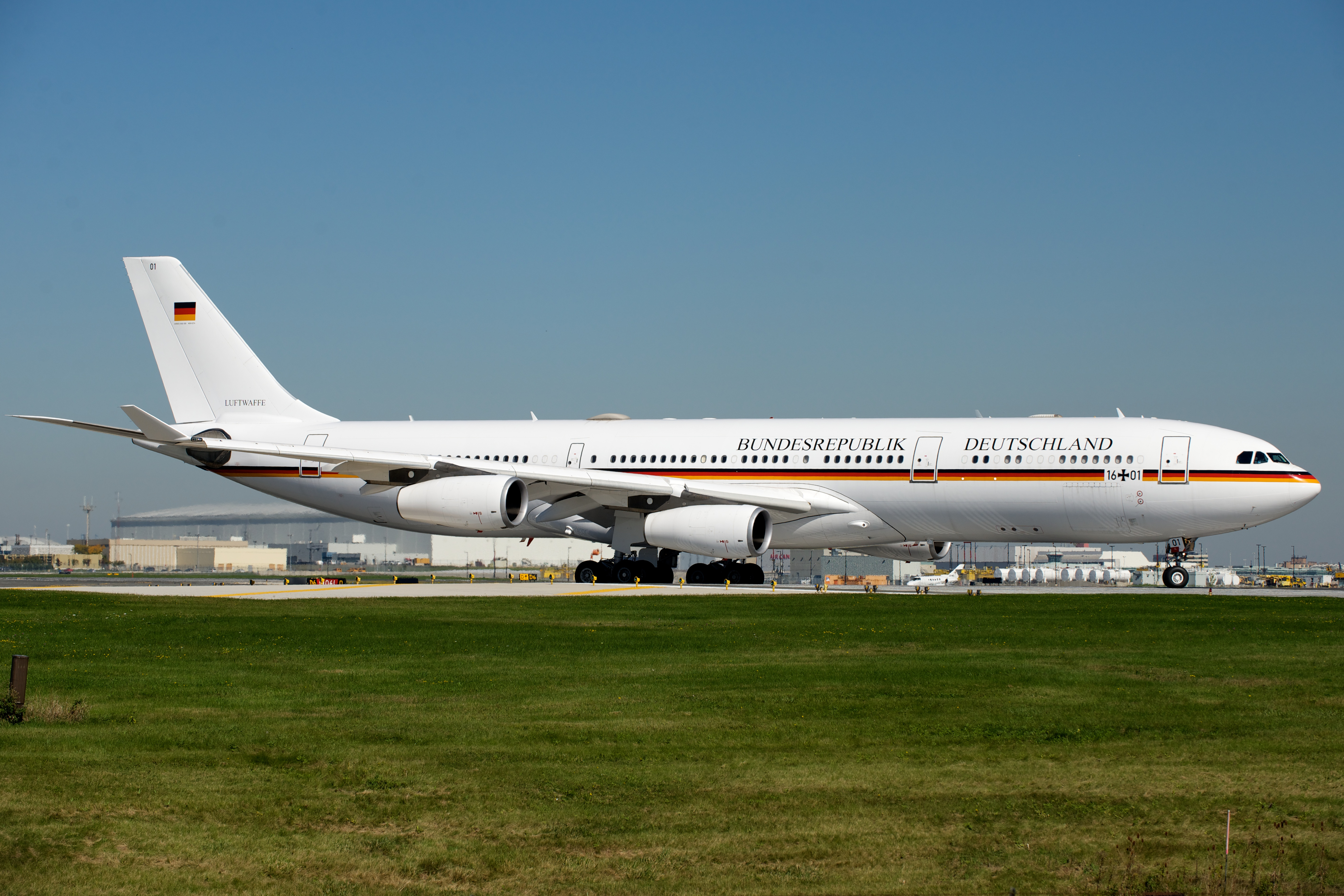 Departing YYZ with the German President